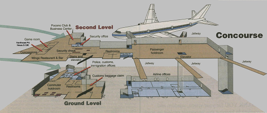 Outlay of the concourse